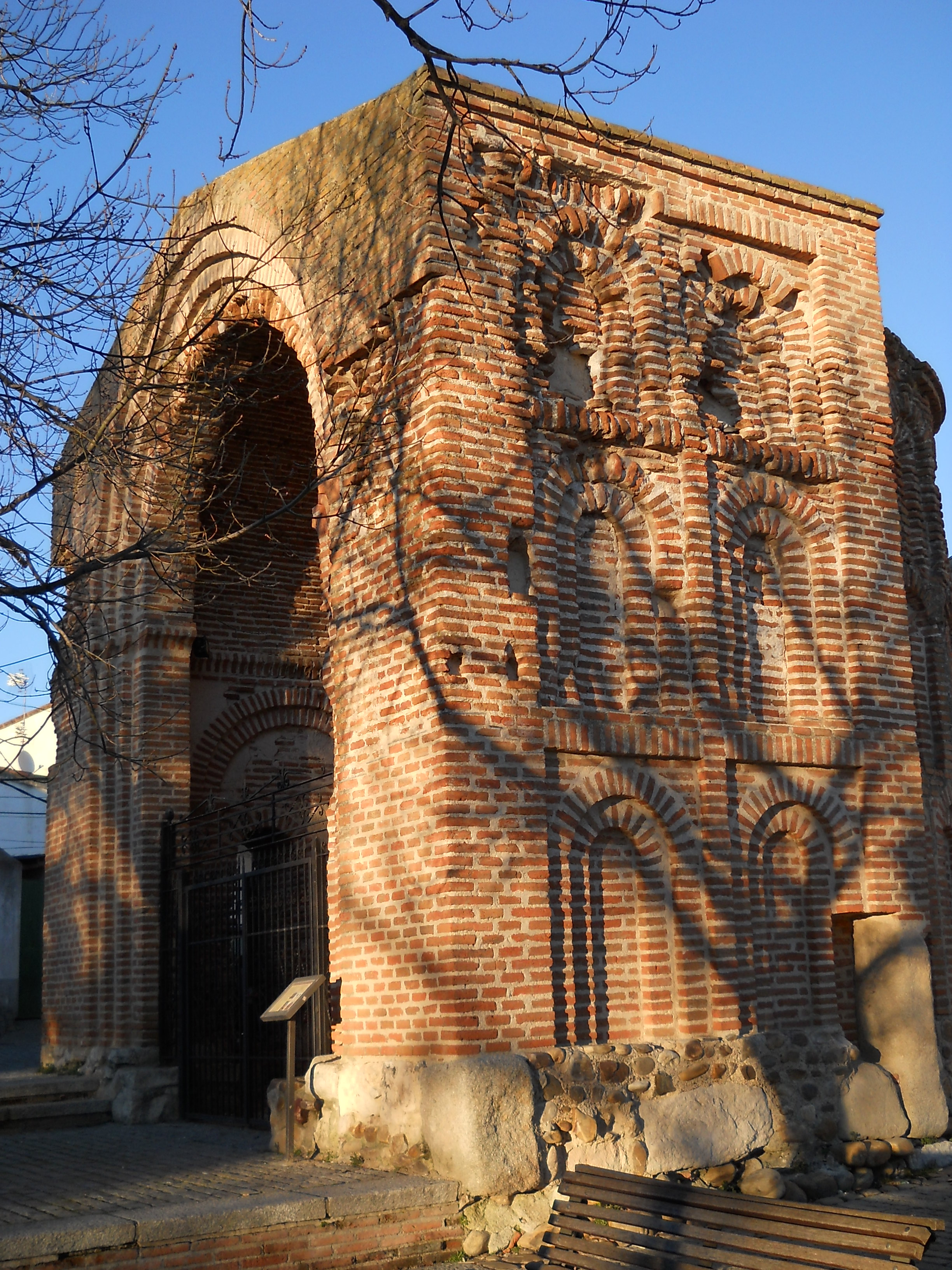 Apse of the Miracles, Talamanca de Jarama, Madrid, Spain